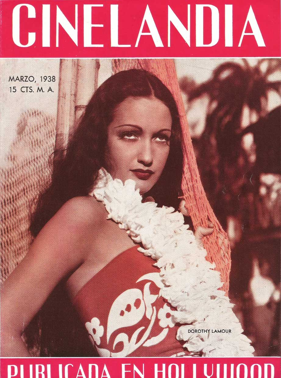 Dorothy Lamour on the Argentinean Magazine cover.